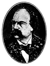 Tommaso Salvini